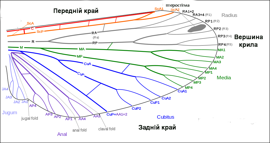 Venation of insect wing (Ukrainian translation) This file was derived from File:Venation of insect wing svg.png